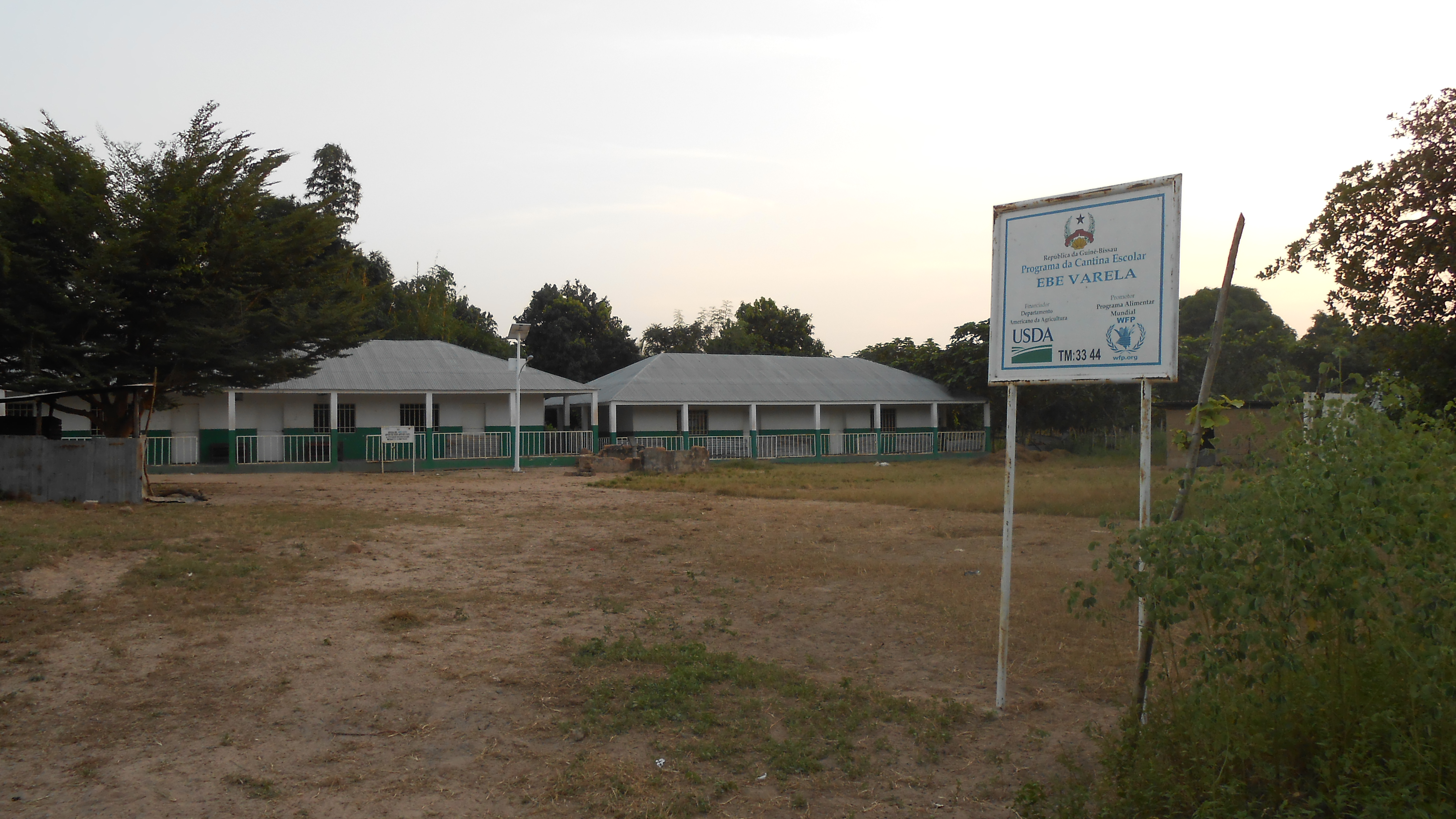 Schools in the little rural village of Varela, situated in the São Domingos sector, region of Cacheu, in the north of Guinea-Bissau.